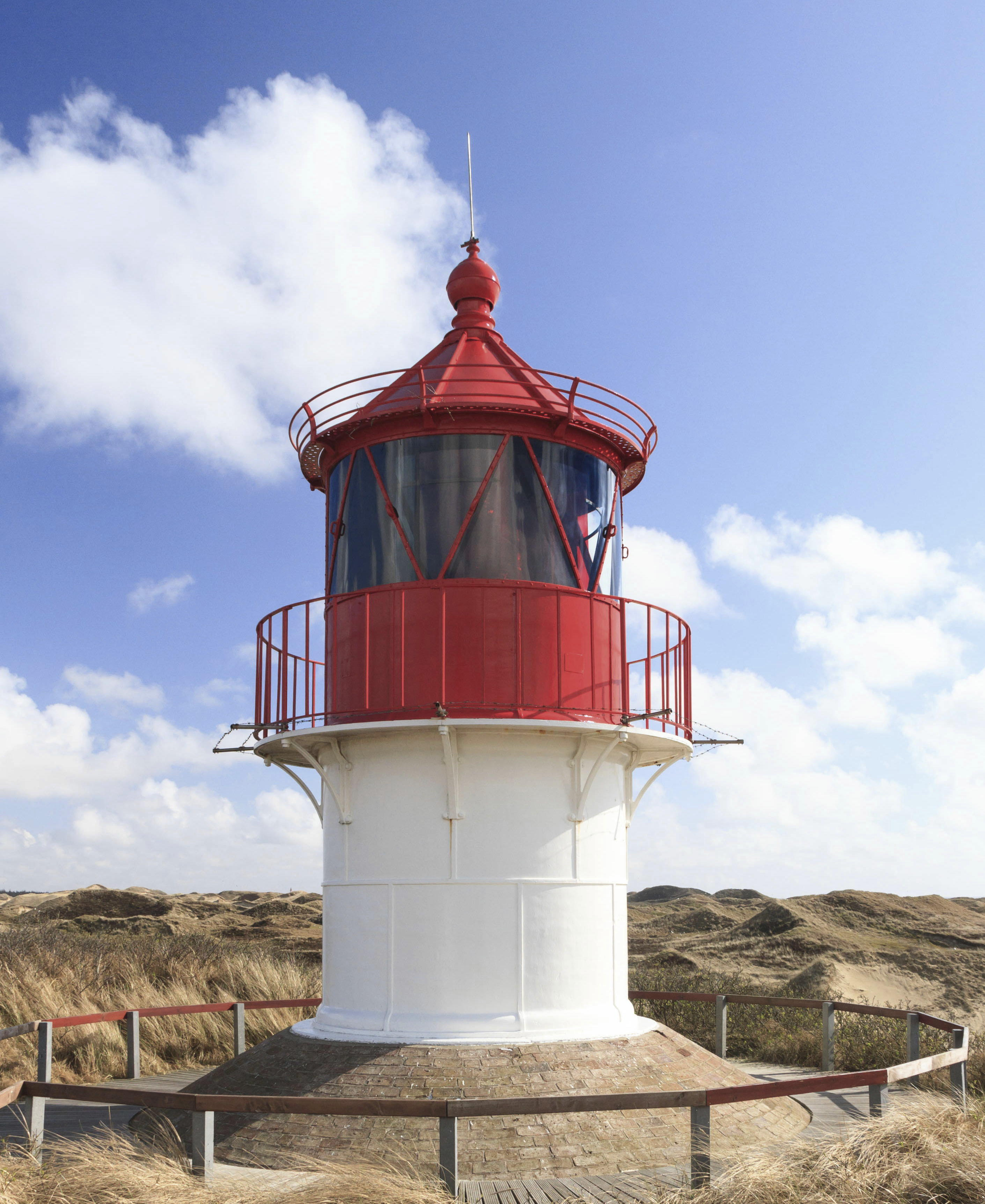 The making of this document was supported by the Community-Budget of Wikimedia Germany. Leuchtturm Norddorf